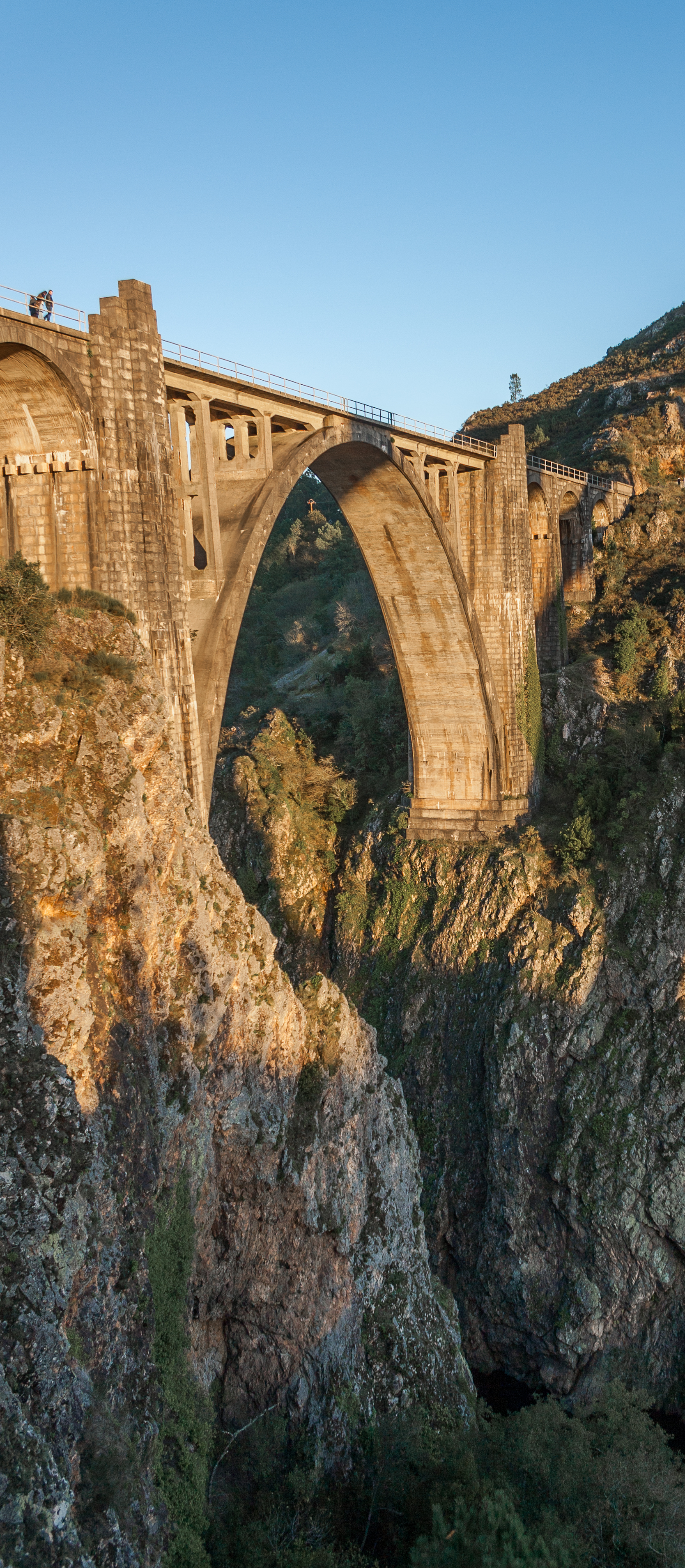 Gundián bridge (1948), in Ponte Ulla, Vedra, Galicia, Spain.